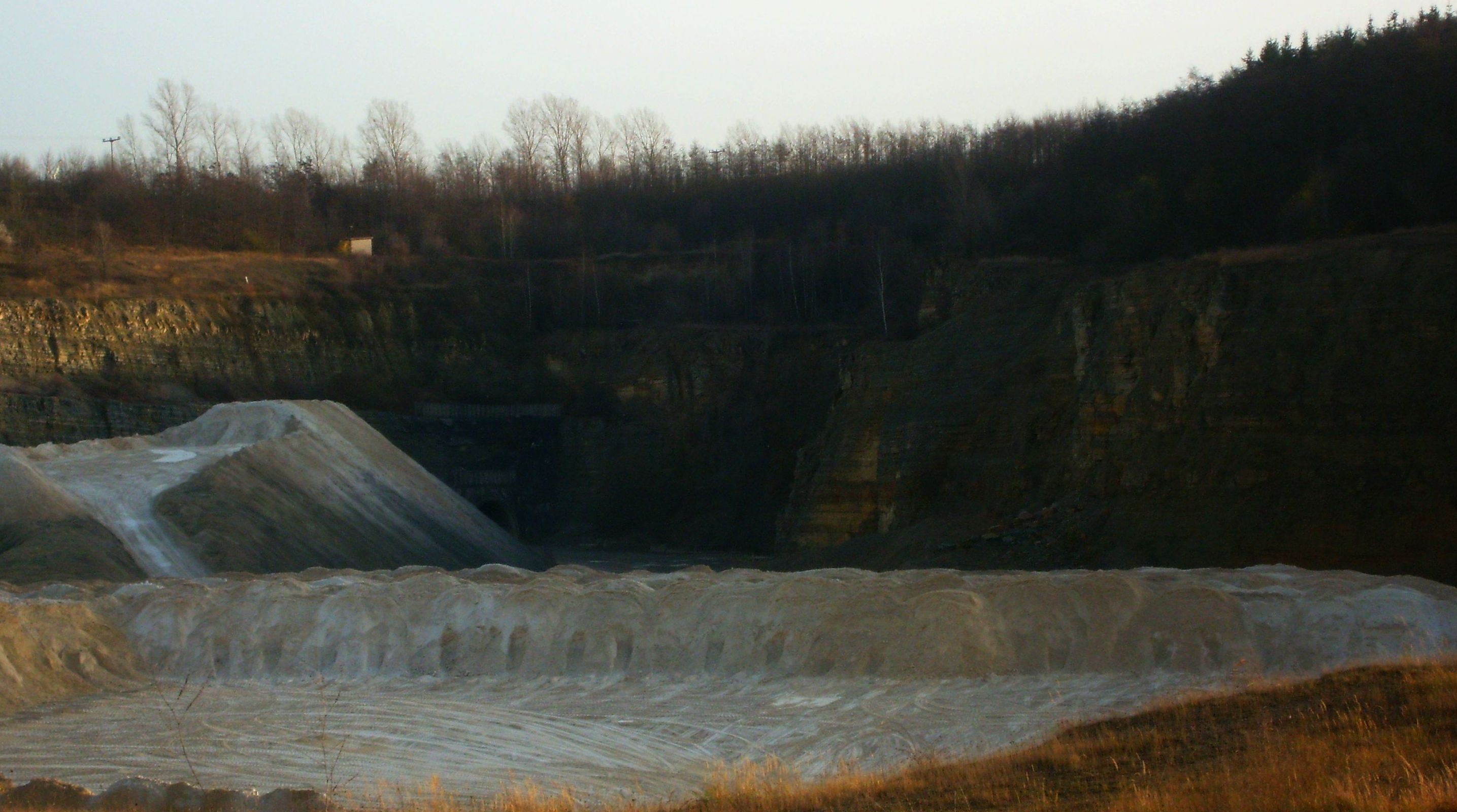 Limestone quarry in Schraplau, Sachsen-Anhalt, with a tunnel to neighboring pit.